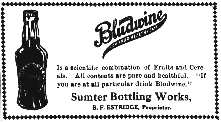 Newspaper ad for Bludwine, from The watchman and southron. (Sumter, S.C.)